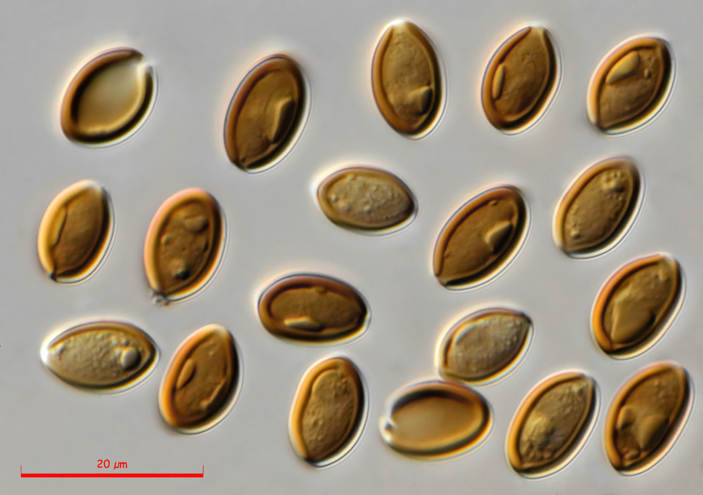 Spores of Psilocybe cubensis, from a spore print labeled “Costa Rica”. 1000x differential interference contrast microscopy done by Alan Rockefeller at Merritt College in Oakland. For more information